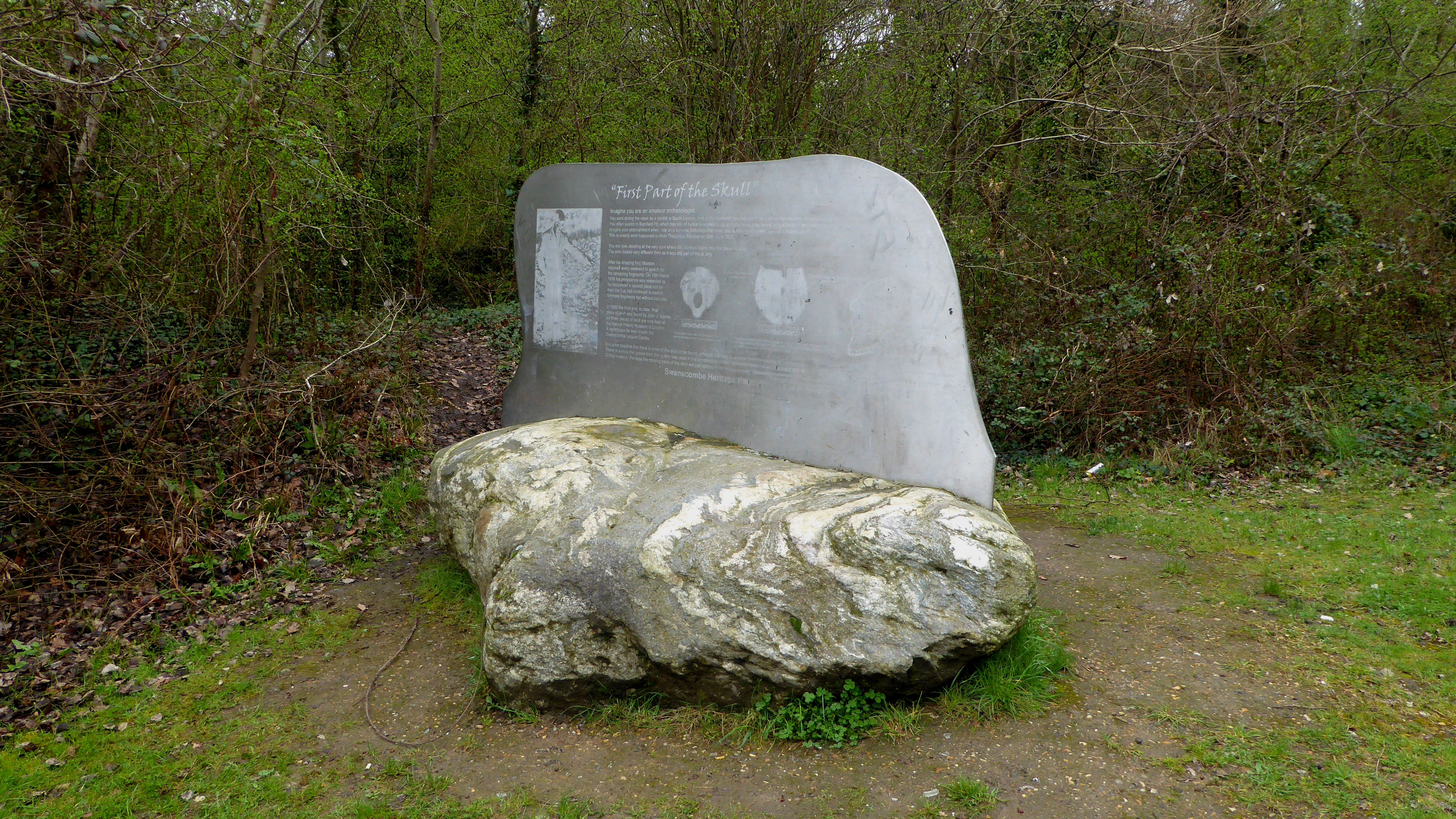 A metal plaque, affixed to a large stone, marking the location where part of a Lower Palaeolithic hominid skull was found in 1935, at Swanscombe Heritage Park in Swanscombe, Kent.